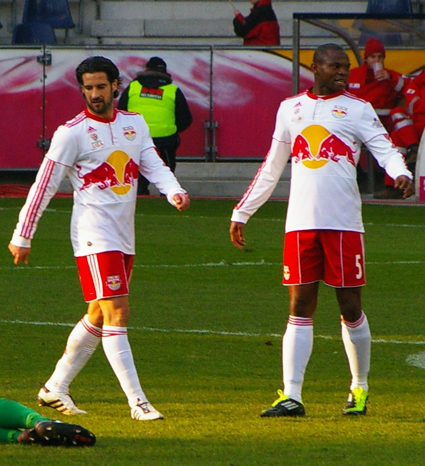 midfielder and defender FC Salzburg